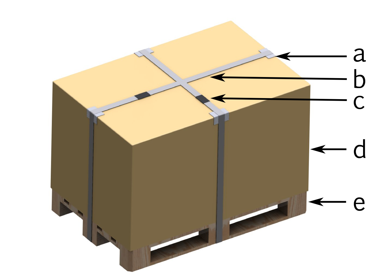 Strapped box on European pallet. (a) edge protection (b) strapping (c) ferrule (d) box (e) palett